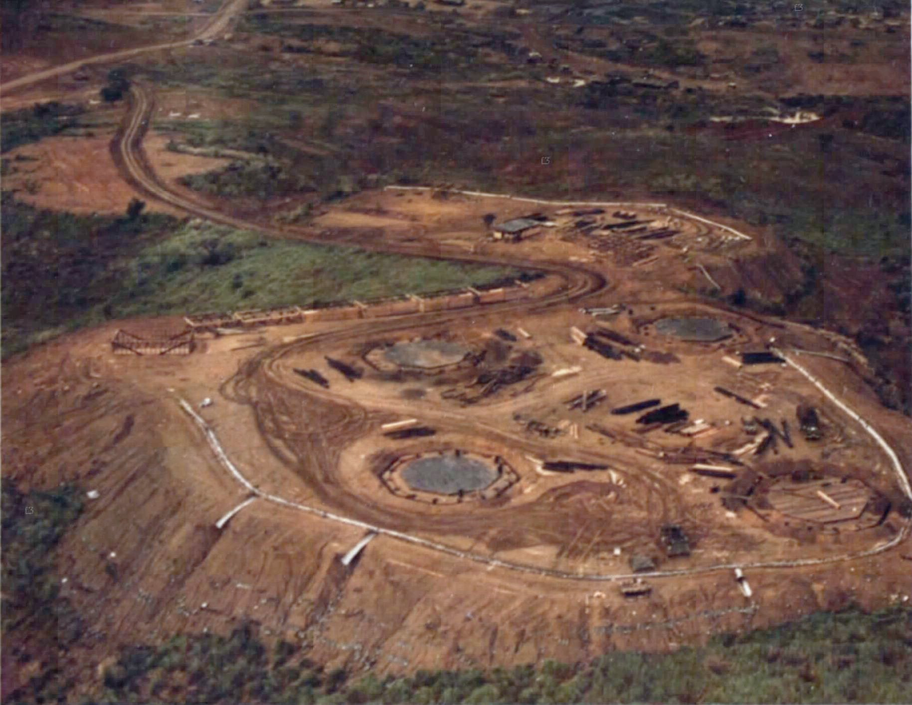 Aerial view of Landing Zone Uplift along QL-1 north of Qui Nhon, which is a forward operating base of the 1st Cavalry Division (Airmobile). The 35th Engineer Battalion is constructing artillery fire support bases and gun pads in support of Operation Pershing.